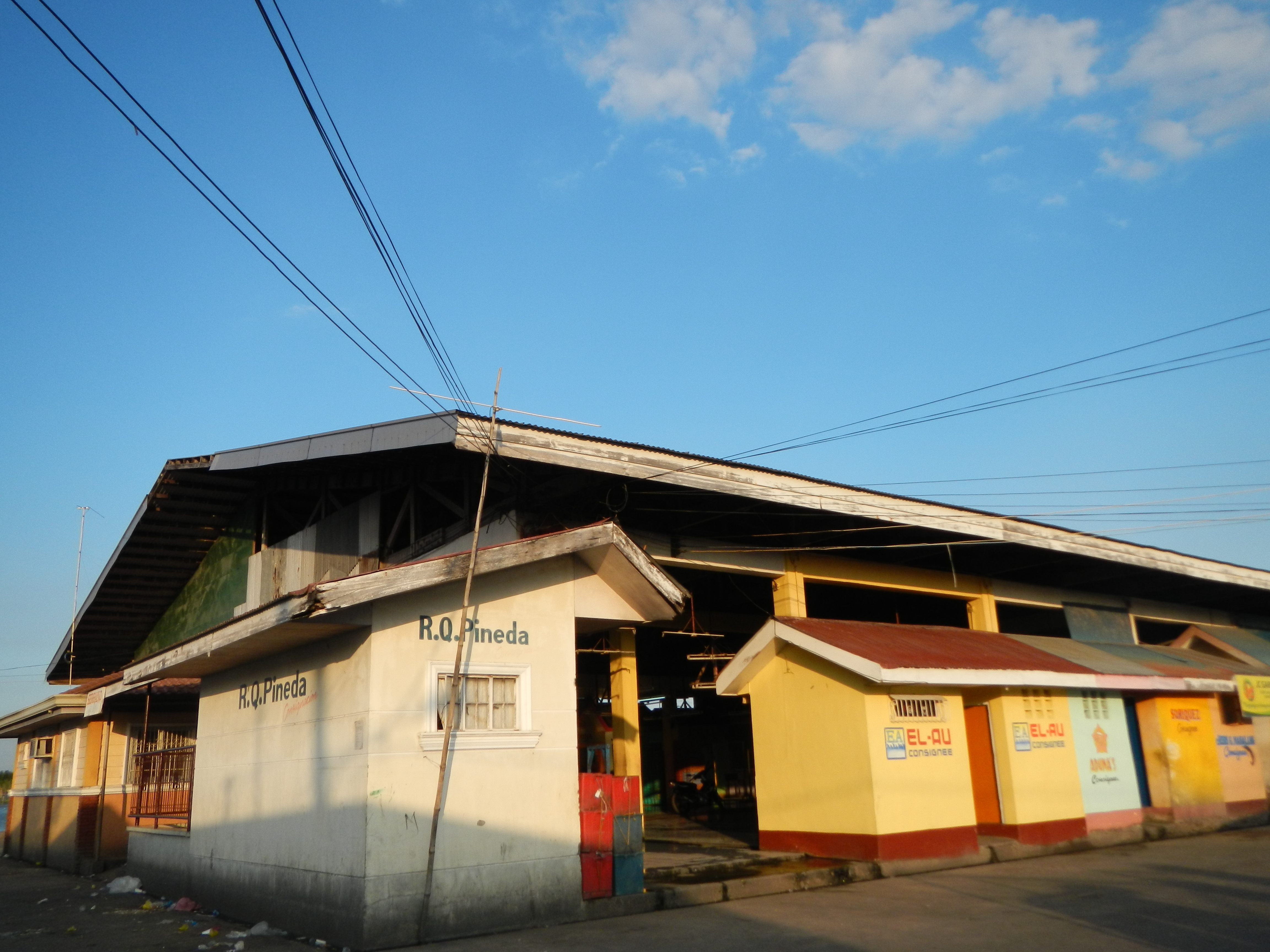 Orani, Bataan[1][2]